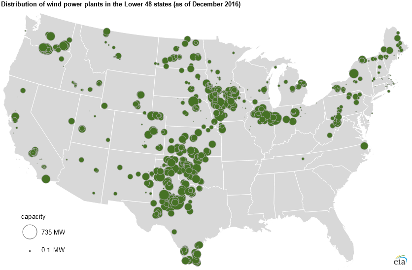 Map of large US wind farms, with size illustration